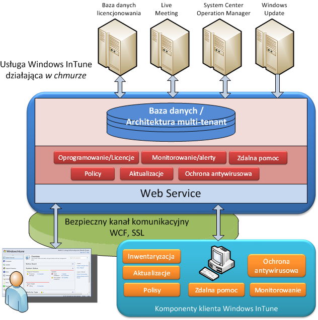 Design of Windows Intune